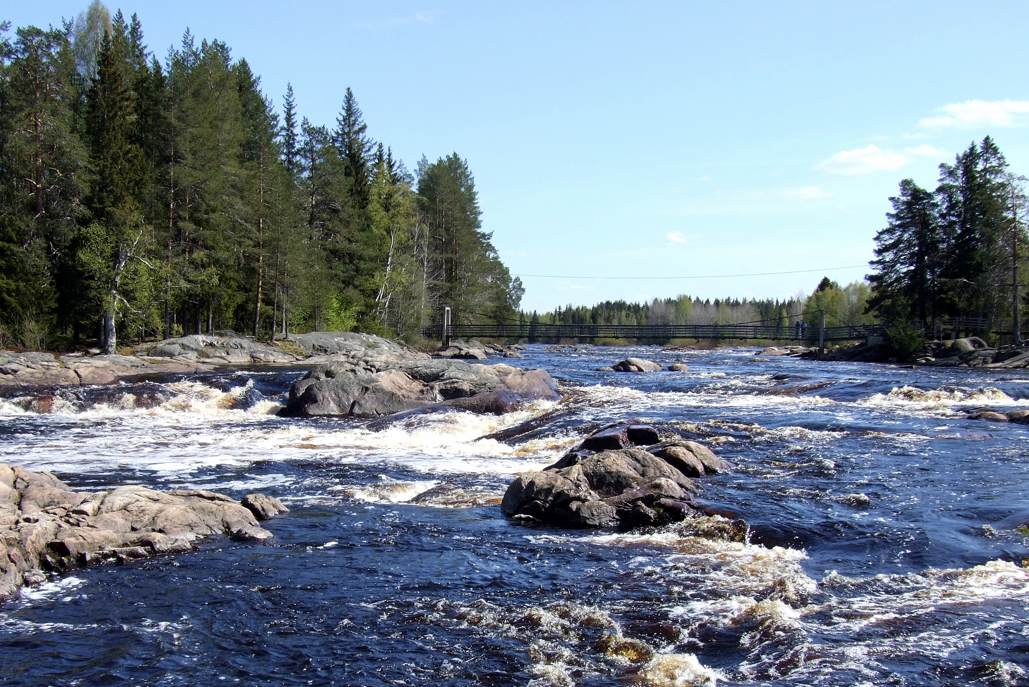 Koitelinkoski rapids of Kiiminkijoki river in Kiiminki, Finland.